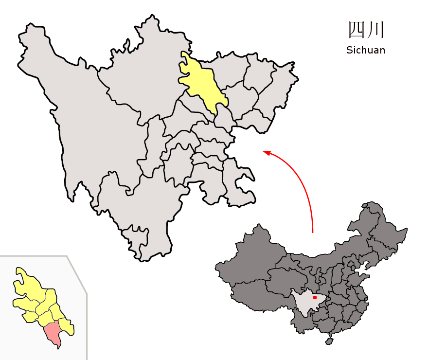 Location of Santai County (pink) and Mianyang Prefecture (yellow) within Sichuan province of China Map drawn in october 2007 using various sources, mainly : Sichuan province administrative regions GIS data: 1:1M, County level, 1990 Sichuan Counties map from